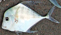 Young diamond trevally, Exmouth, WA